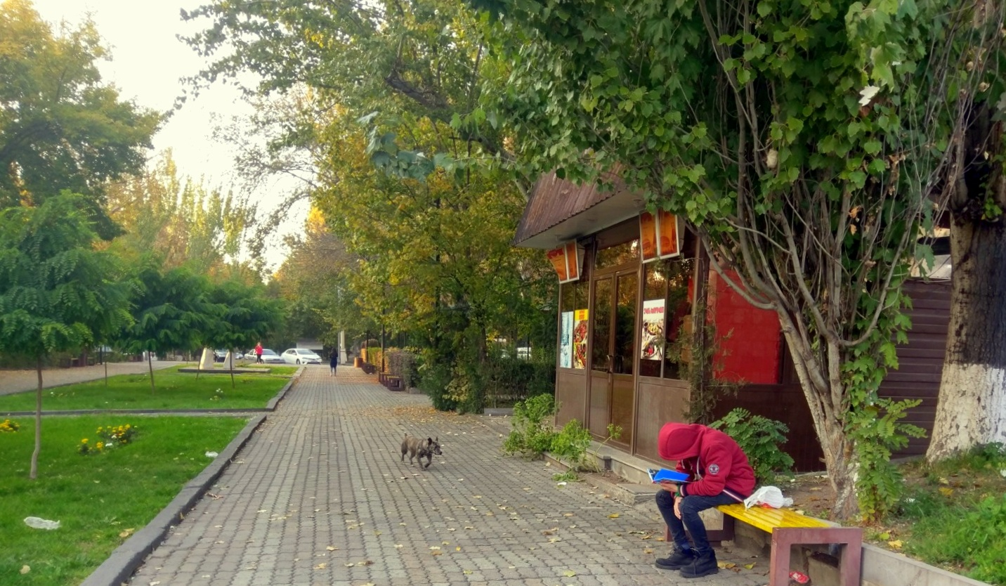 A boy reading at the Yerevan Circular Park.